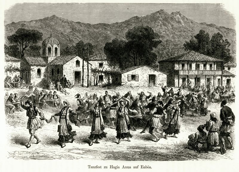 Amand Schweiger von Lerchenfeld. Griechenland in Wort und Bild, Eine Schilderung des hellenischen Konigreiches, Leipzig, Heinrich Schmidt & Carl Günther, 1887